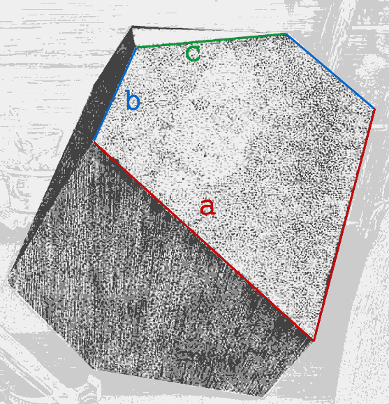 Description: Famous engraving knwon as Melancholia I / Melencolia I *Artist: Albrecht Dürer *